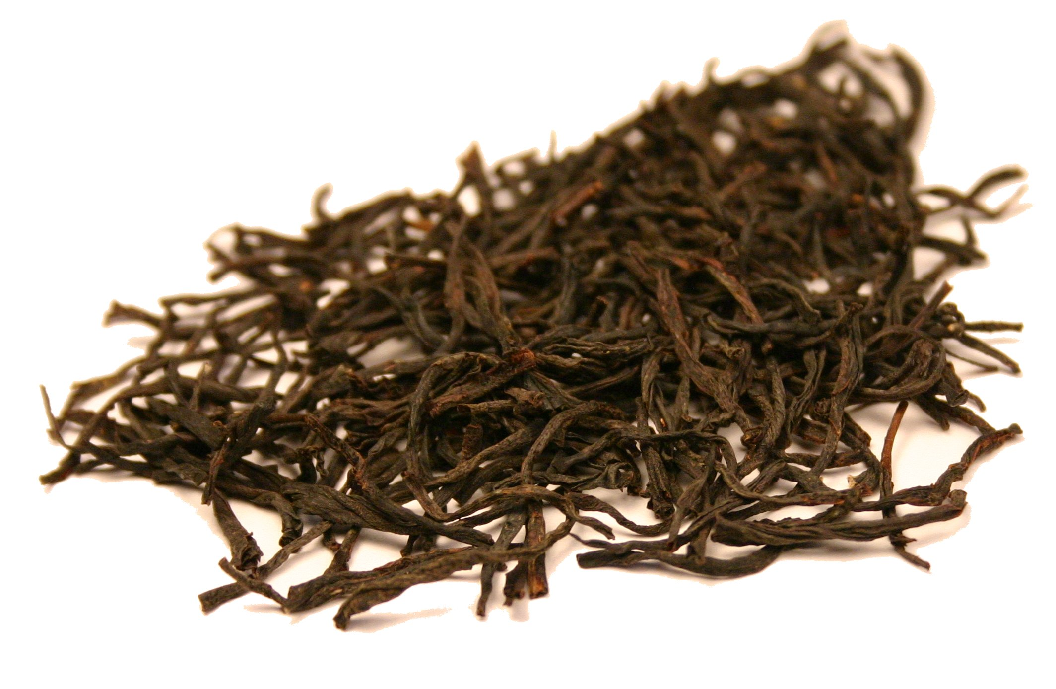 Uruwala OP1 - a classic black wiry OP Ceylon tea. camera: Canon EOS 300D camera